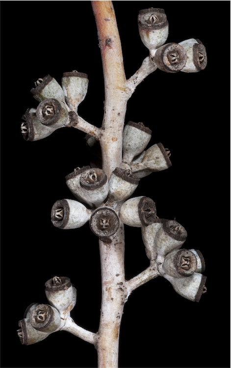 Flowers of Eucalyptus clelandiorum at the juncion of Riverina-Sandstone Road and Evanston-Menzies Road, Western Australia